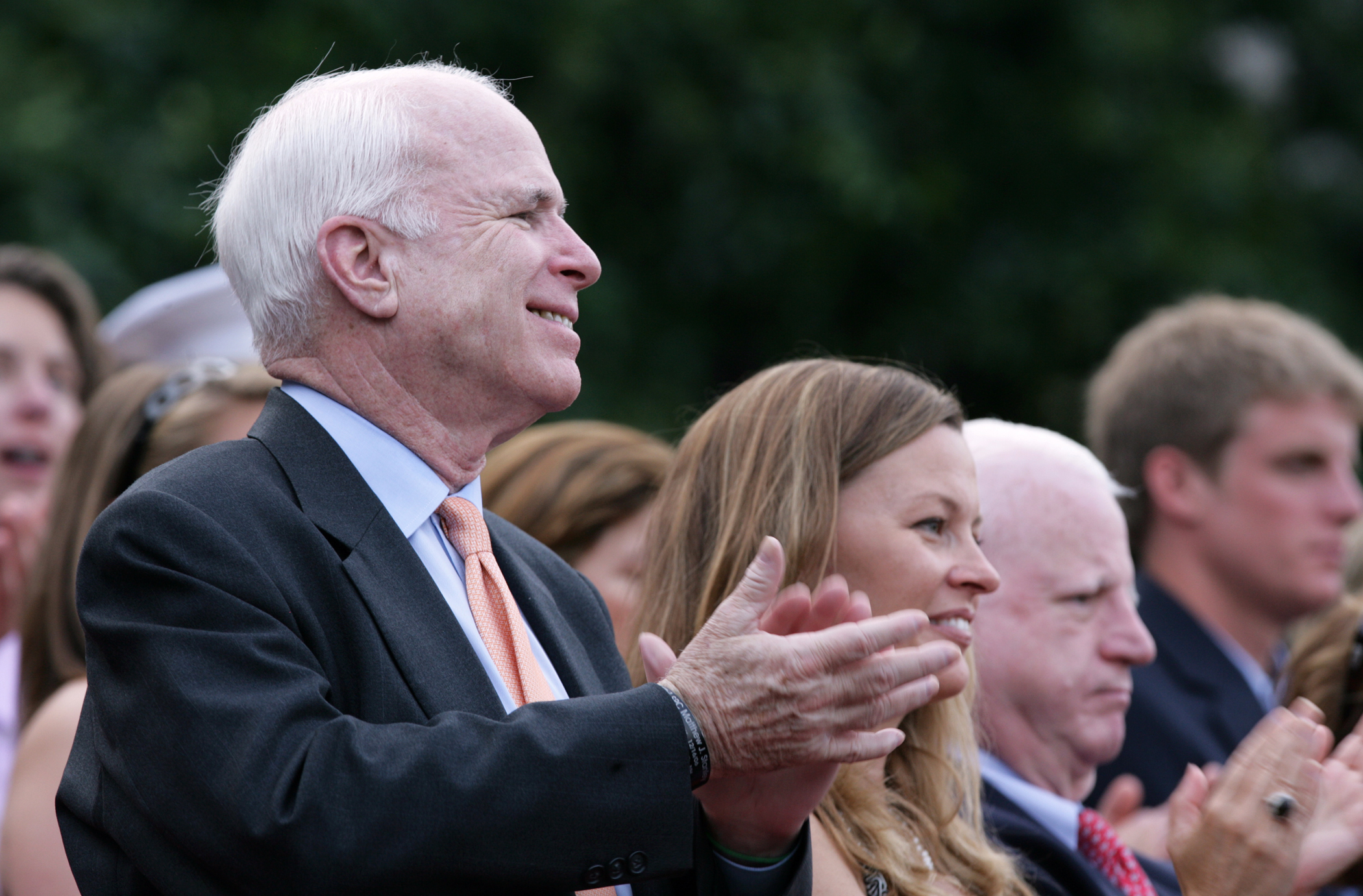 Arizona Senator John McCain applauds in honor of his long time comrad retired Air Force Col. George 'Bud' Day, Medal of Honor recipient, during the weekly Marine Corps Sunset parade at the Marine Corps War Memorial Aug. 3. The two Vietnam veterans shared a prison sell as prisoners of war in 1967, during which they were tortured by Viet Cong forces. Day has remained a political ally over the years.